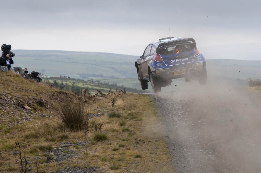 Wales Rally Great Britain 2012 Ford Fiesta RS WRC,Ford WRT,Ford World Rally Team,Halfway 1,Jari-Matti Latvala,Miikka Anttila,Motorsport,Rally,Rallye,SS9,WP9,WRC,Wales Rally GB